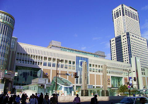 Sapporo Station in Sapporo, Japan.